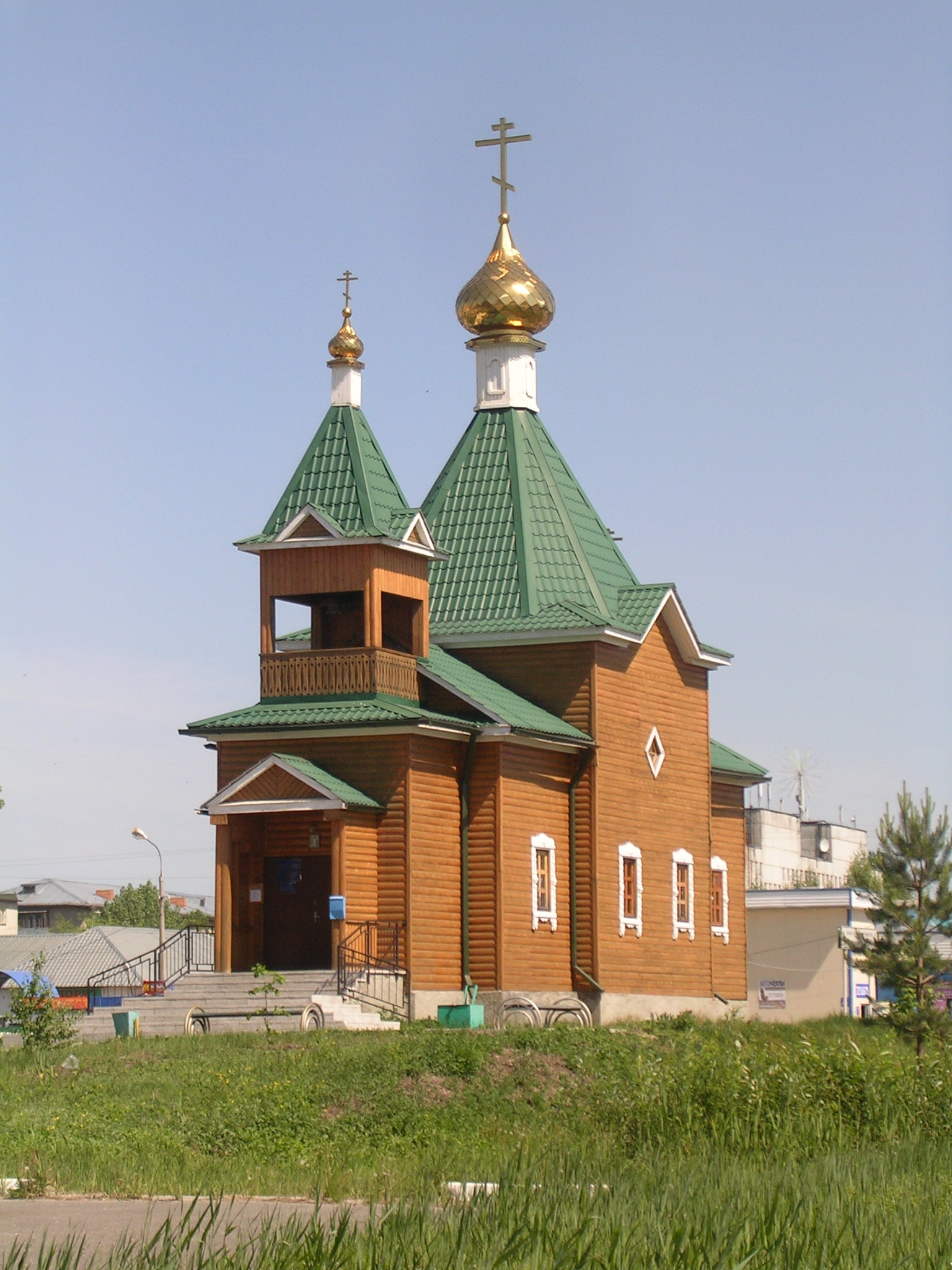 Small temple sanctificated by name of new martyrs and confessors of Shatura, in Shatura city, Moscow region.